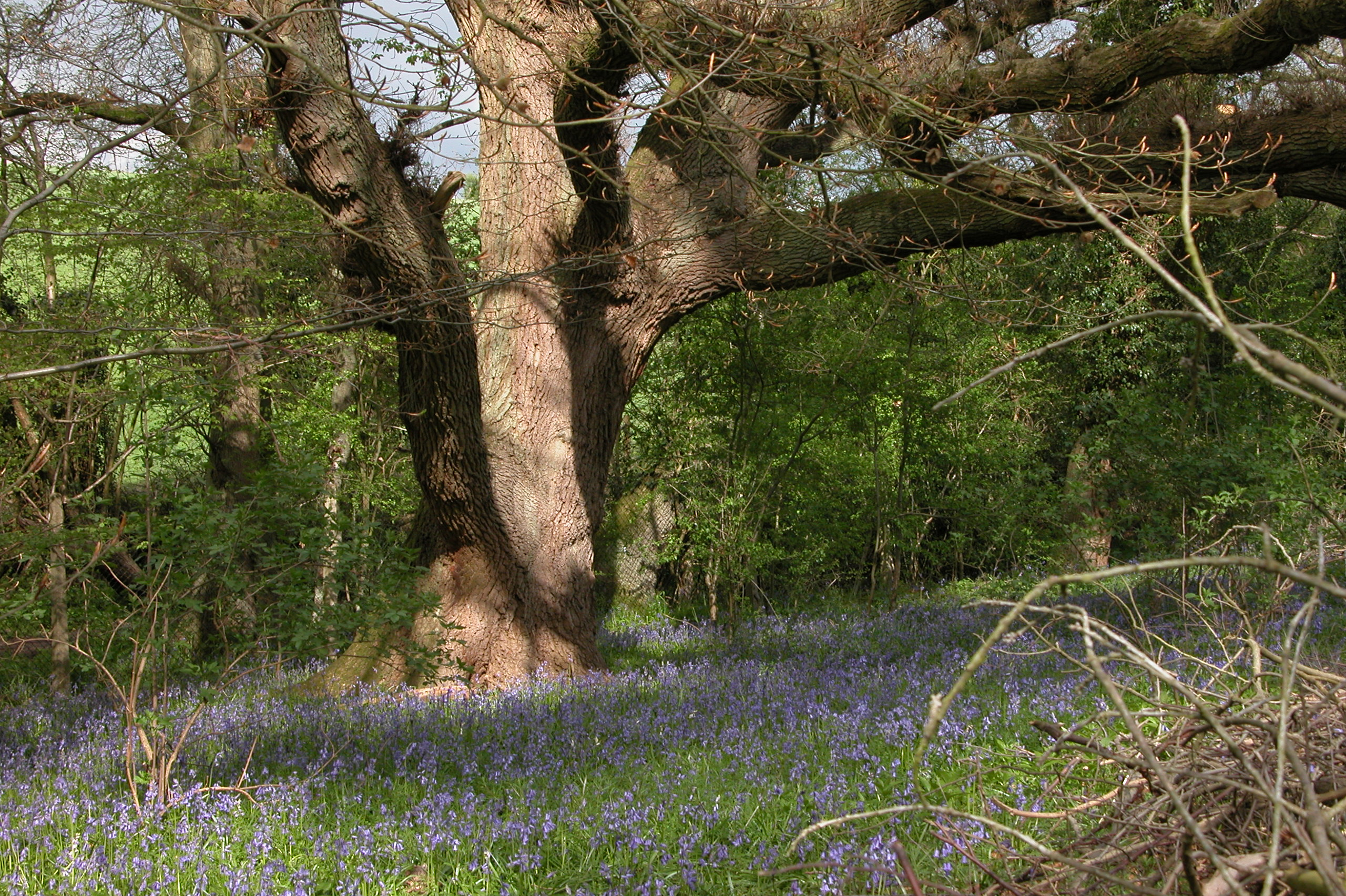 Woodland Walk at Chiltern Open Air Museum Waldpfad im Chiltern Open Air Museum